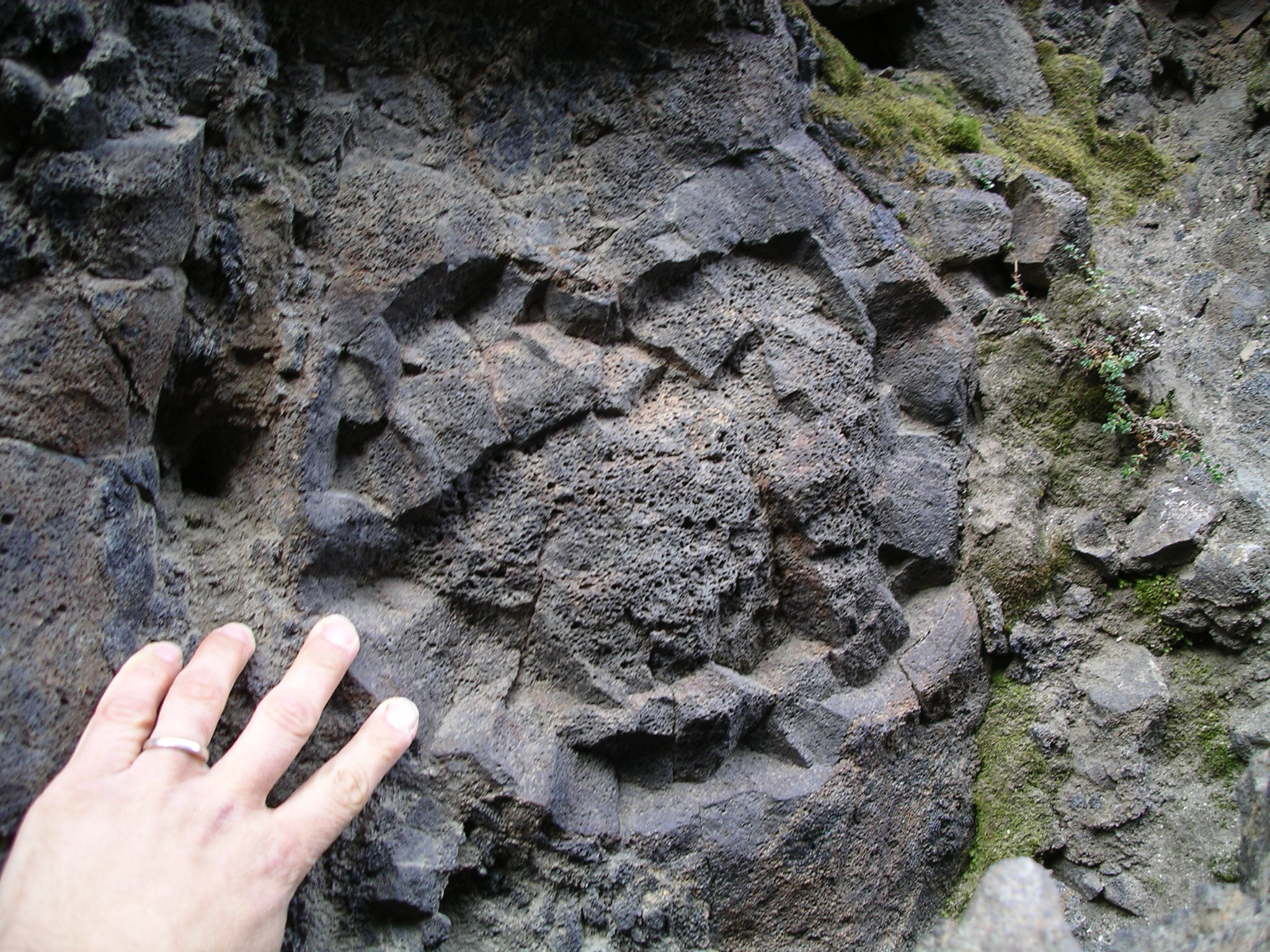 pillow lava in Askja (Iceland) (subglacial eruption)